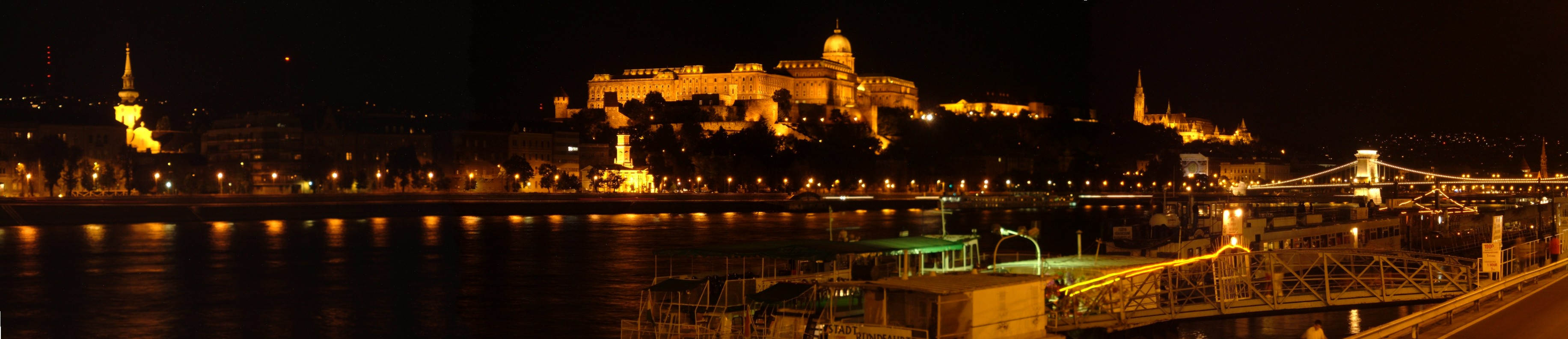 View of Budapest by nigh.